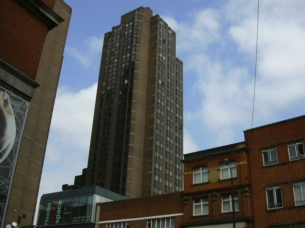 Photo of the Union Jack Club (in London SE1) taken by myself in April 2007. I hereby release it into the public domain.